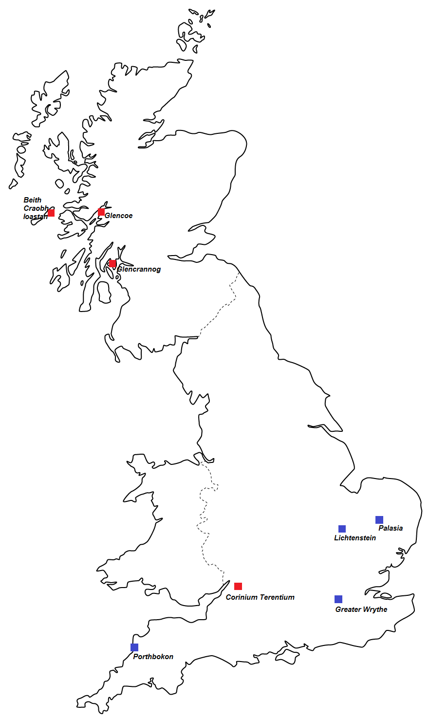 The location of the micronation Austenasia within the United Kingdom.The location of the micronation Austenasia within the United Kingdom.